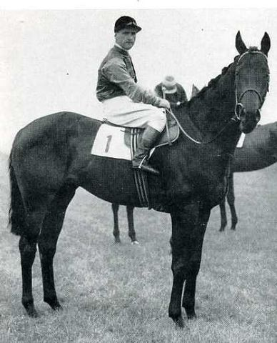 English racehorse Big Game in summer of 1942. Unknown photographer. 70 years old.